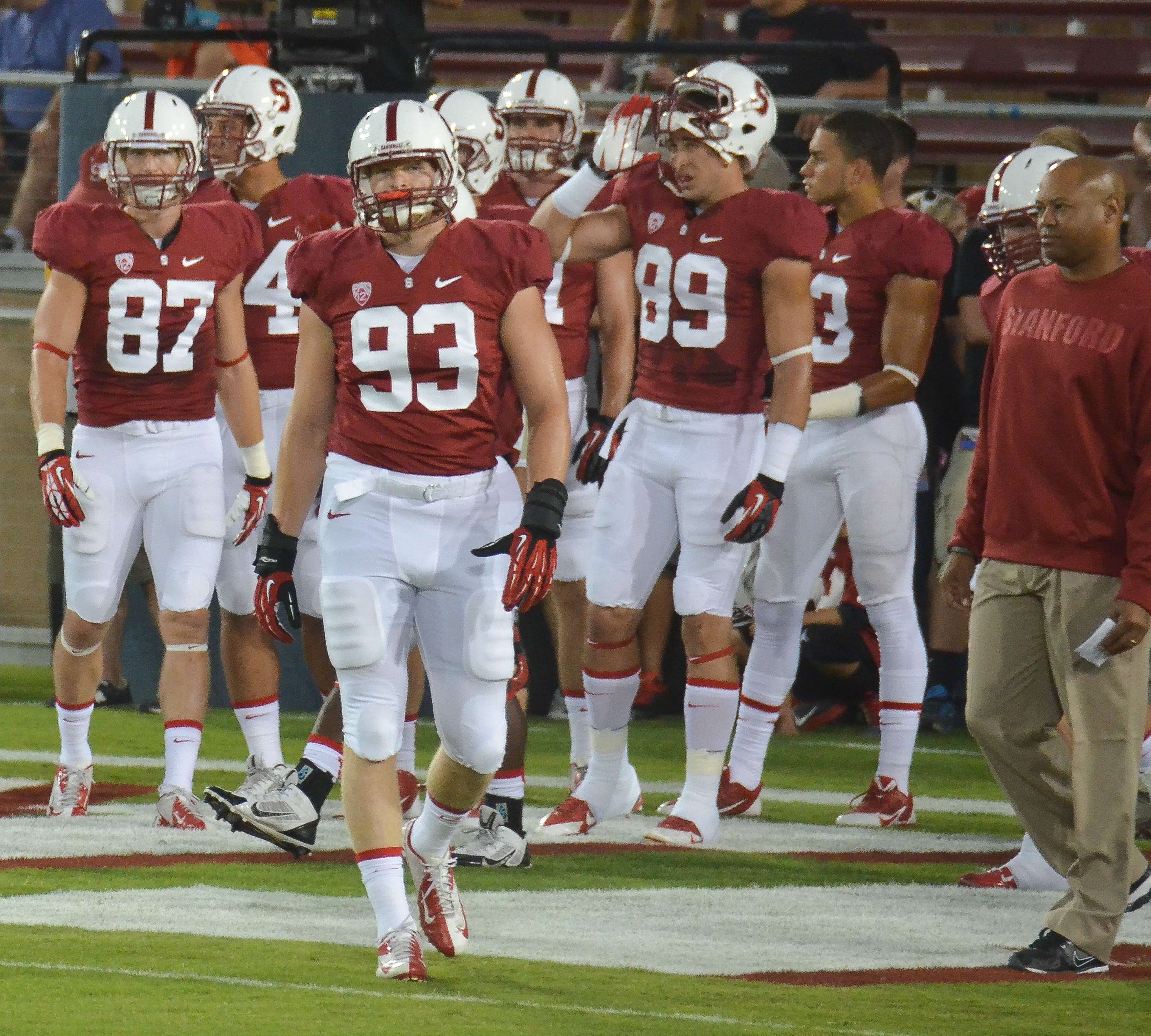 David Shaw and trent Murphy enter the field